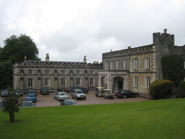 Port Eliot House West elevation